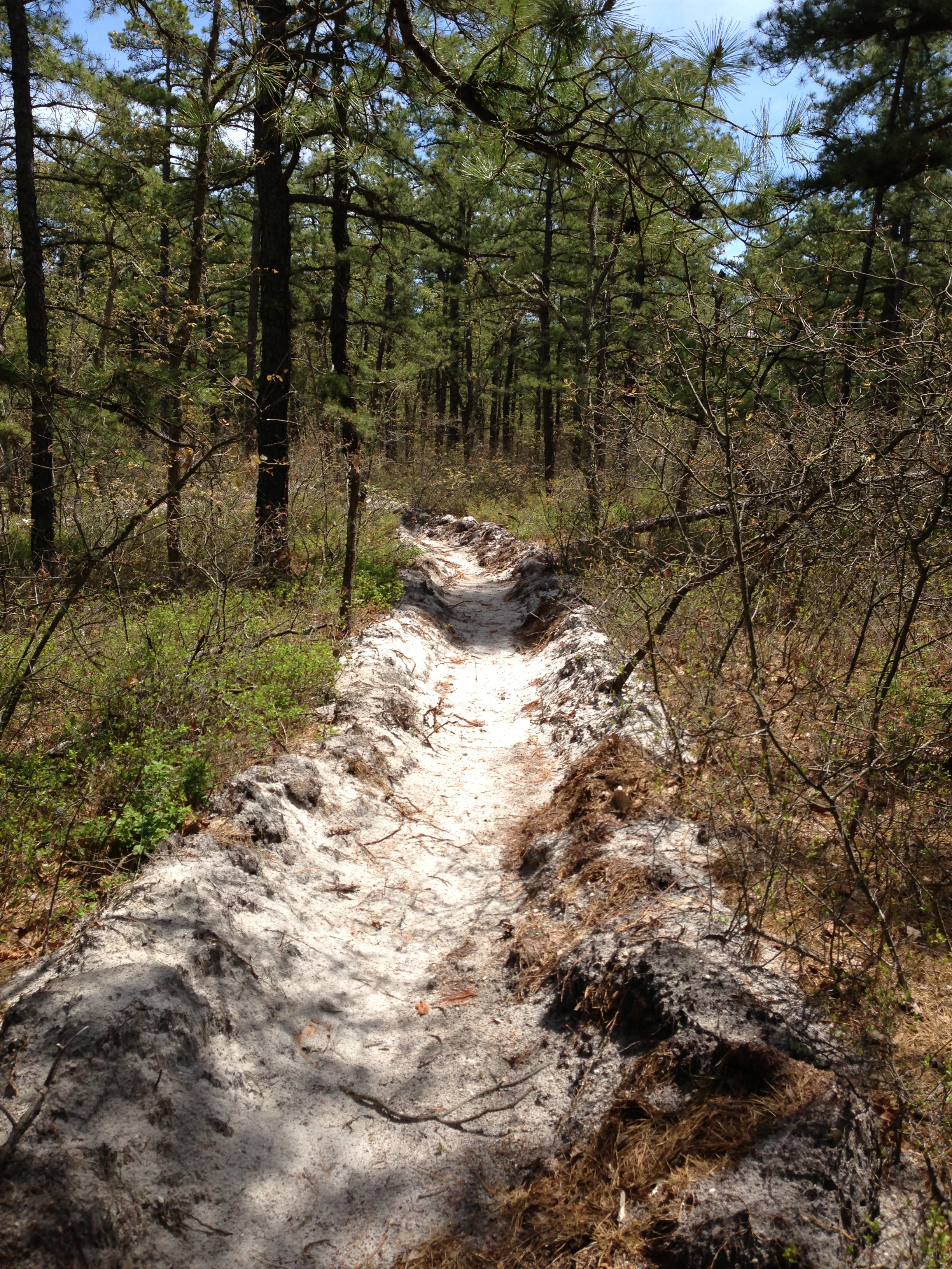 Freshly dug fire break along the Mount Misery Trail in Brendan T. Byrne State Forest on May 10th 2013